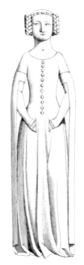 Edward III weeper Joan